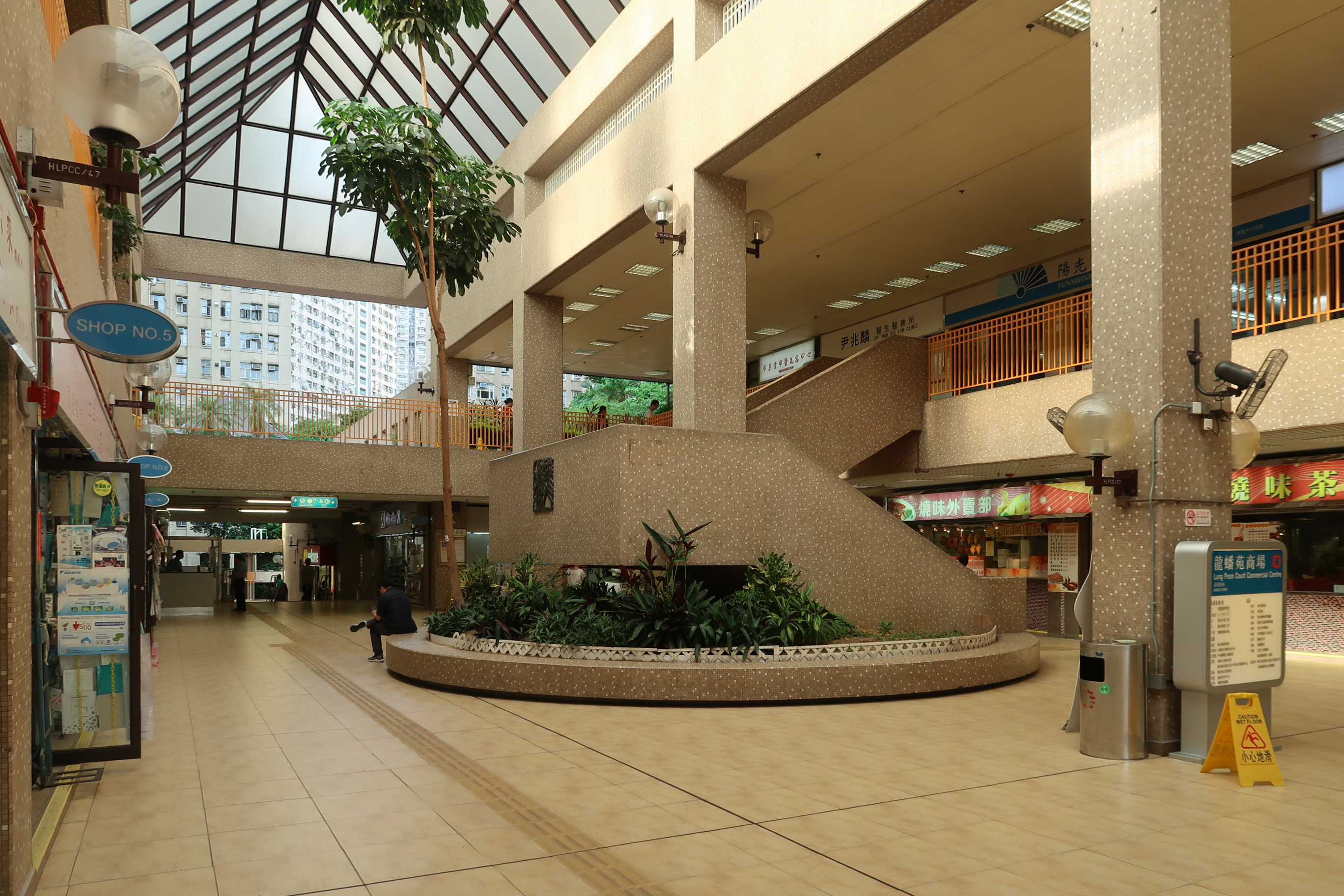 Lung Poon Court Commercial Centre